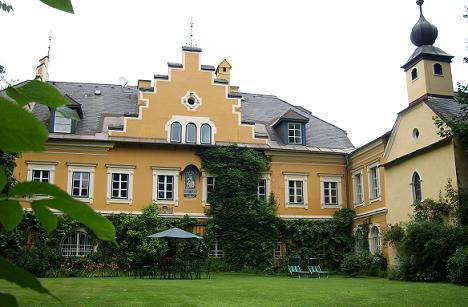 View of the Schloss St. Georgen with the curch.